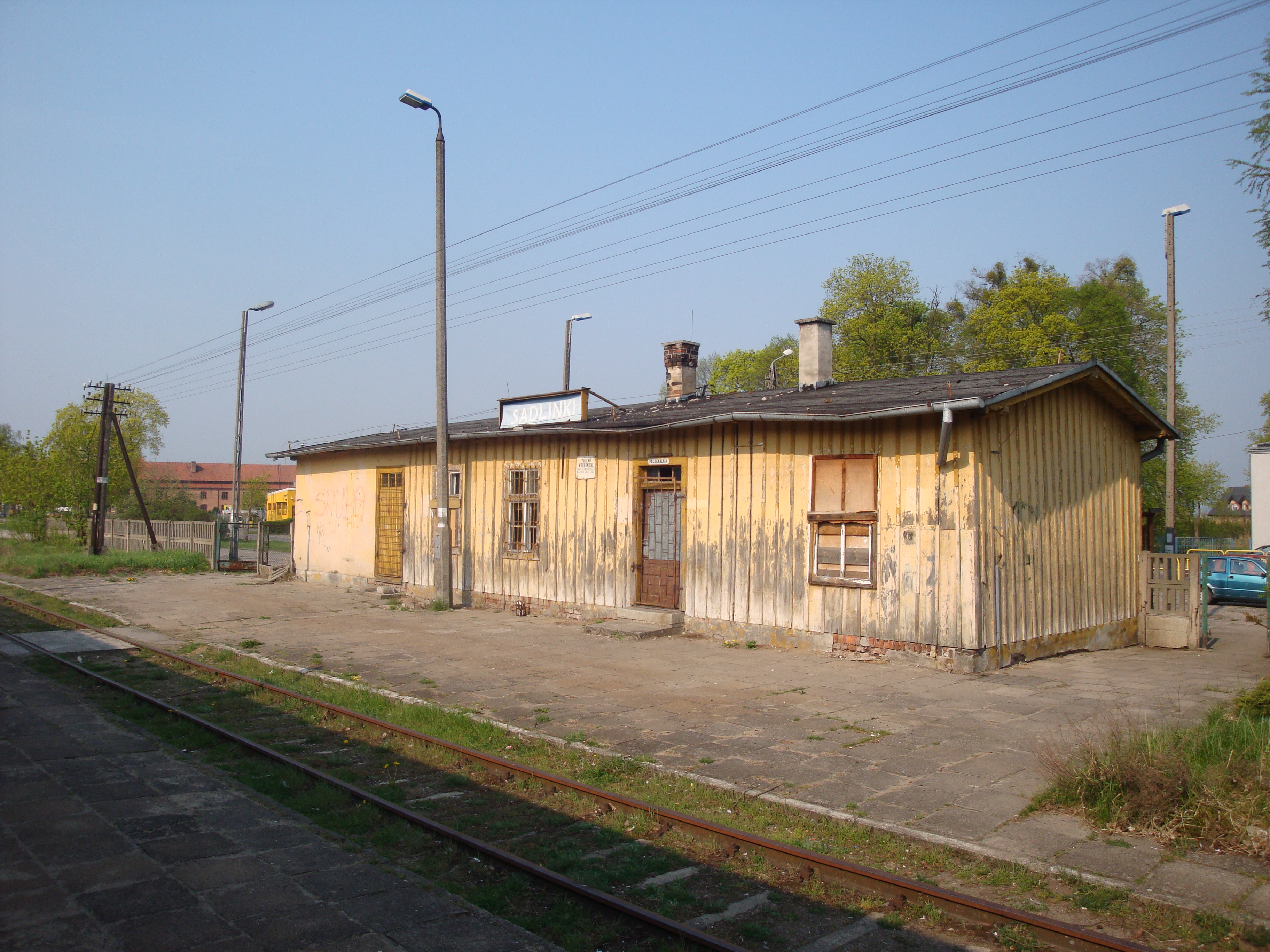 Train station in Sadlinki, Poland